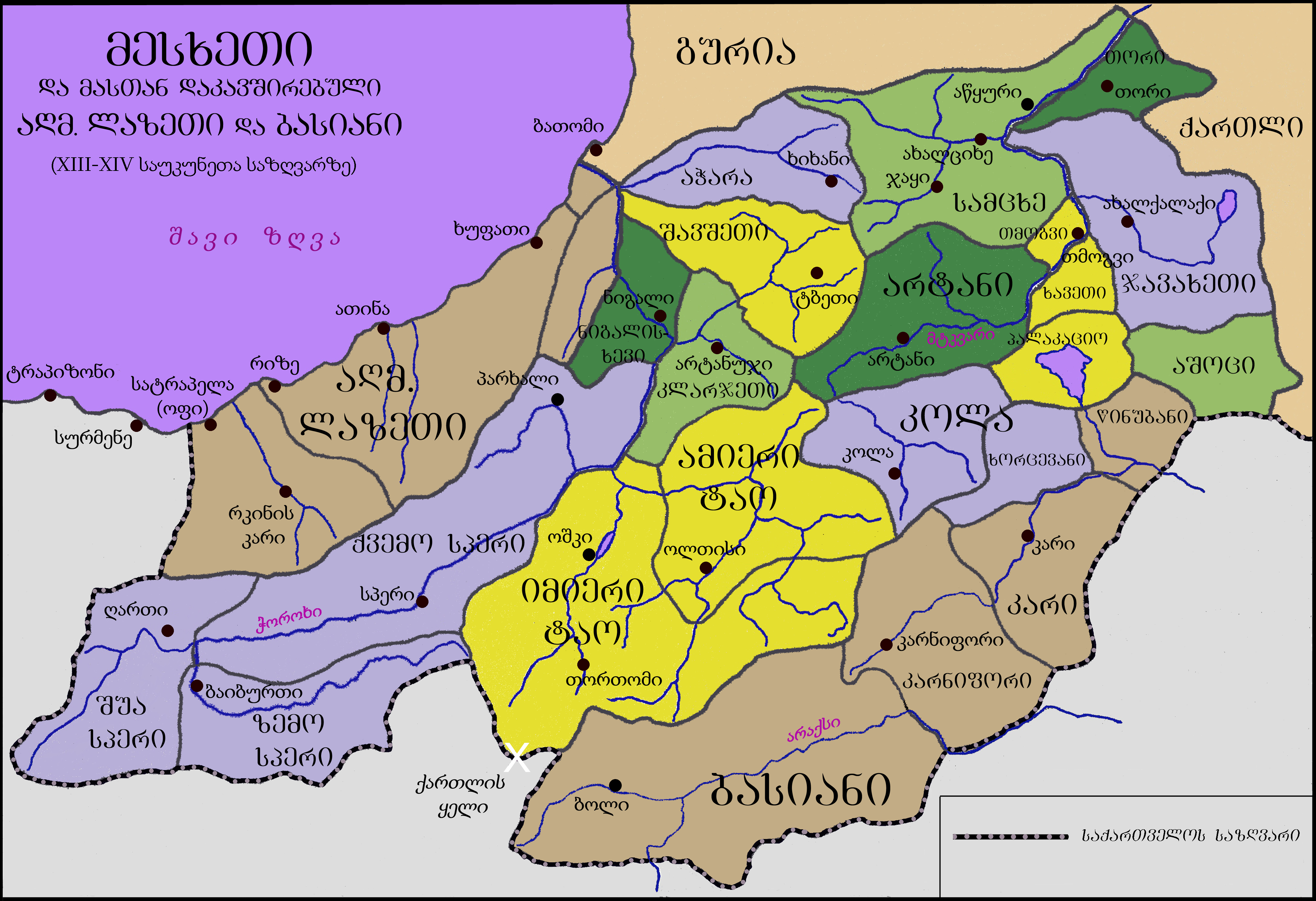 Map of Meskheti (Samtskhe-Saatabago) Principality of Georgia